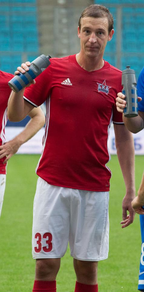 Igor Udaly with FC SKA-Khabarovsk against FC Dynamo Moscow.